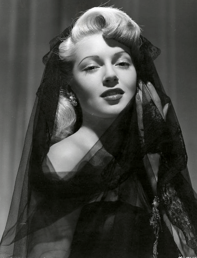 as appeared in Screenland, April 1944